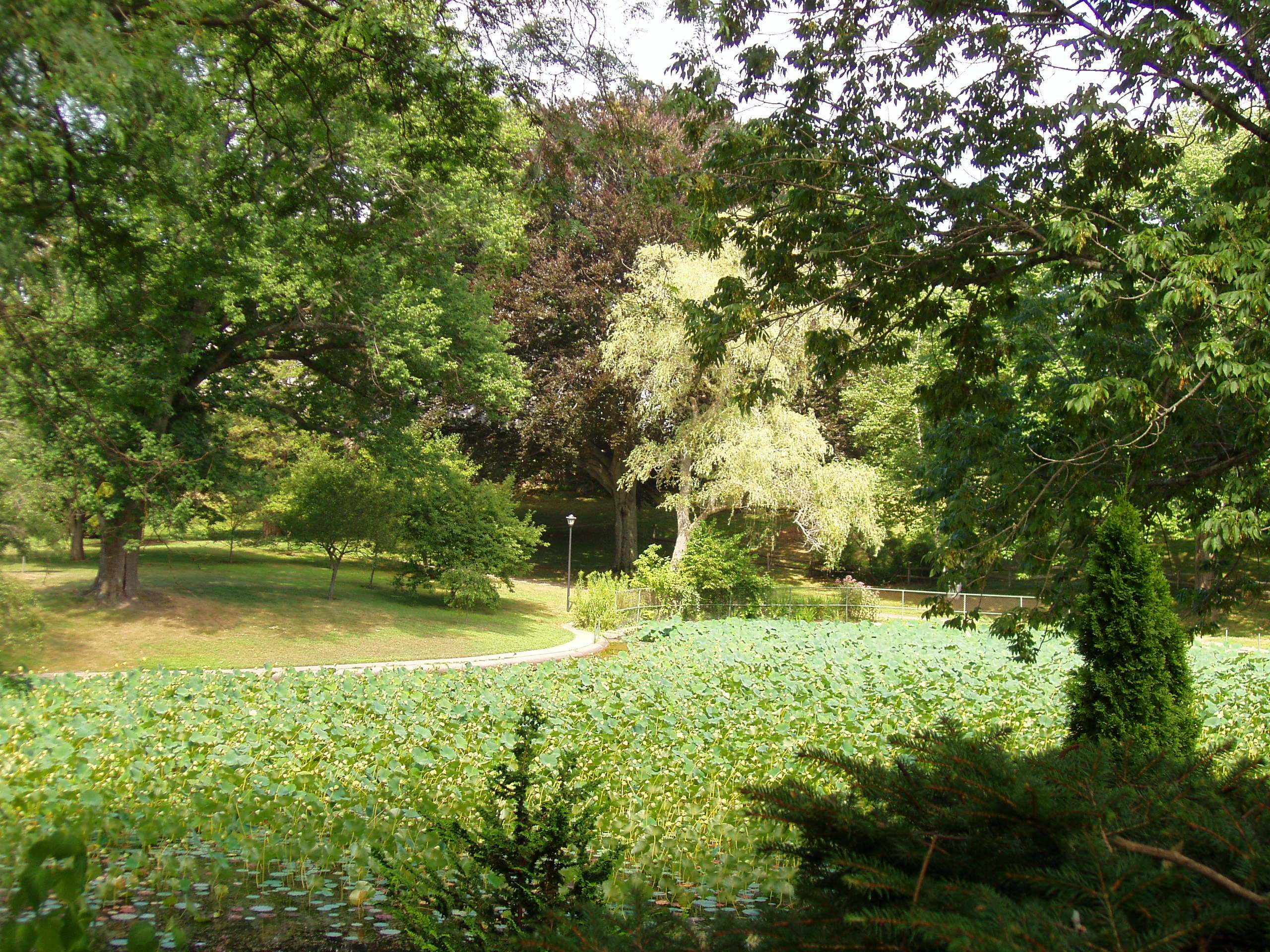 Pond in Wilcox Park, Westerly, Rhode Island, USA.